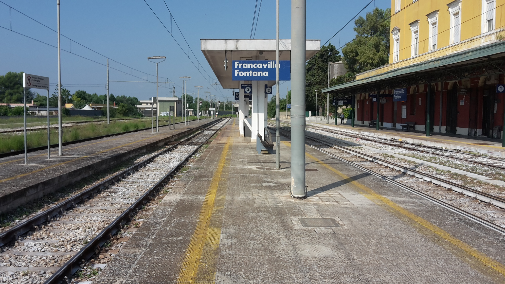 Rails of the Francavilla' train station.